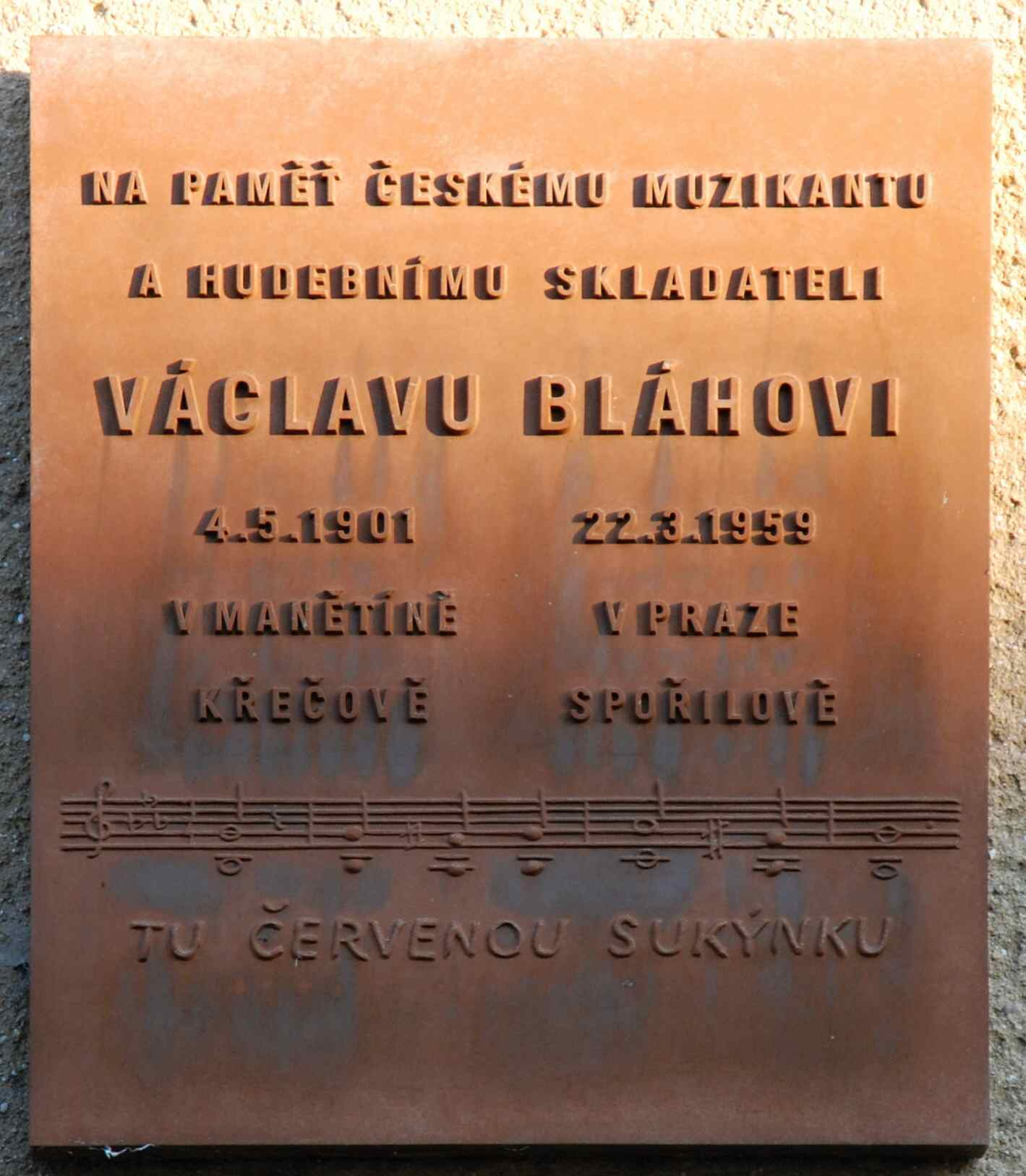 Václav Bláha, composer.